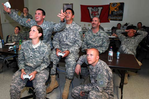 Pros vs. GI Joes Army Spc. Meghan Phillips, Spc. Cody Black, Staff Sgt. James Wagner, Spc. Liam Walsh and Pfc. Eric Liesse (kneeling) of the Joint Task Force Public Affairs Office play a game of “Halo 3” against Green Bay Packers players Mike Montgomery and Tony Moll Friday, Oct. 17 during a Pro vs. GI Joe event. 1st Sgt James Venske, at right, looks on. – JTF Guantanamo photo by Army 1st Lt. Adam Bradley